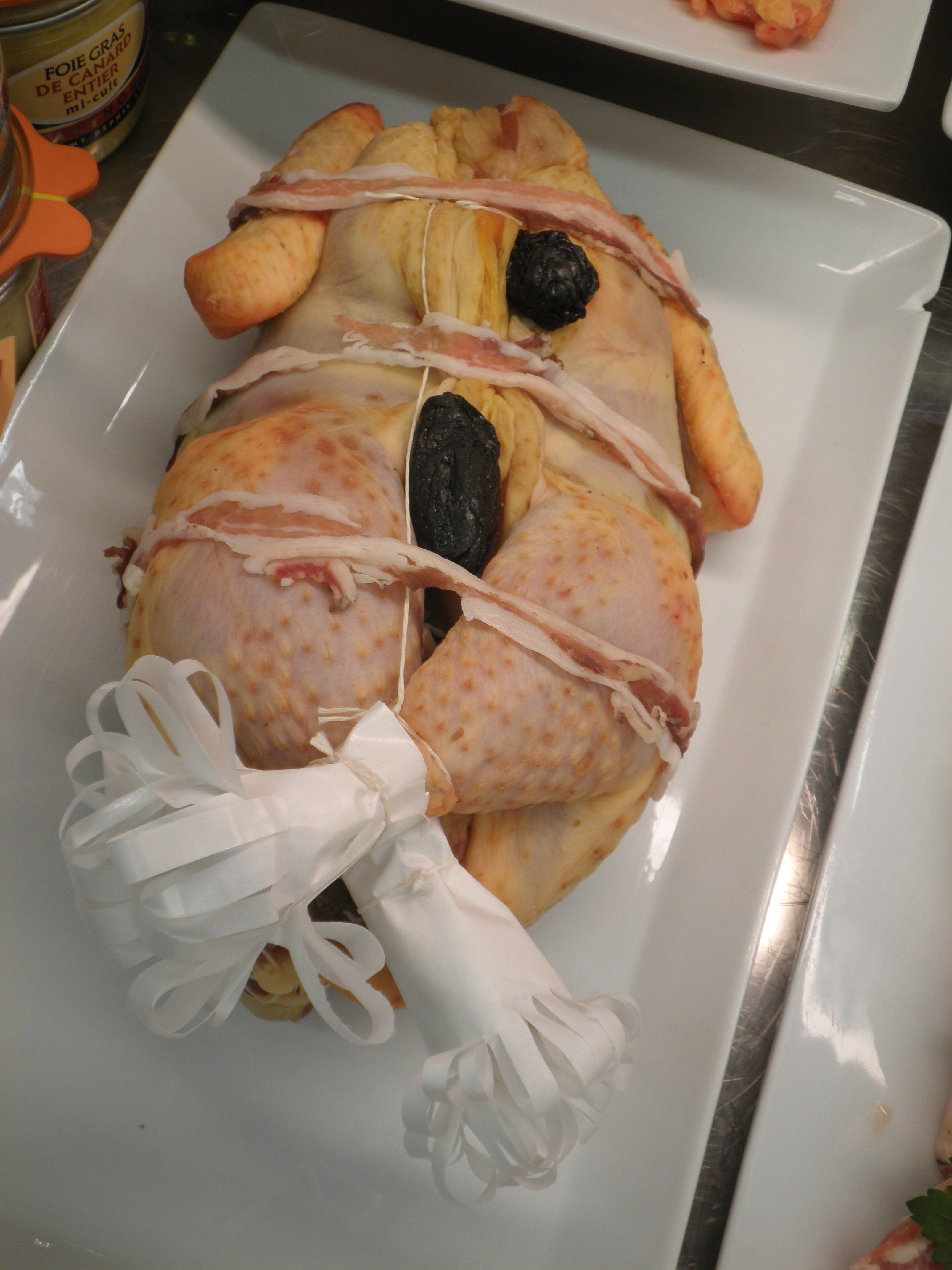 French meat. Biocoop, Biarritz.